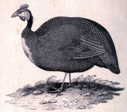 From General zoology. or, Systematic natural history.